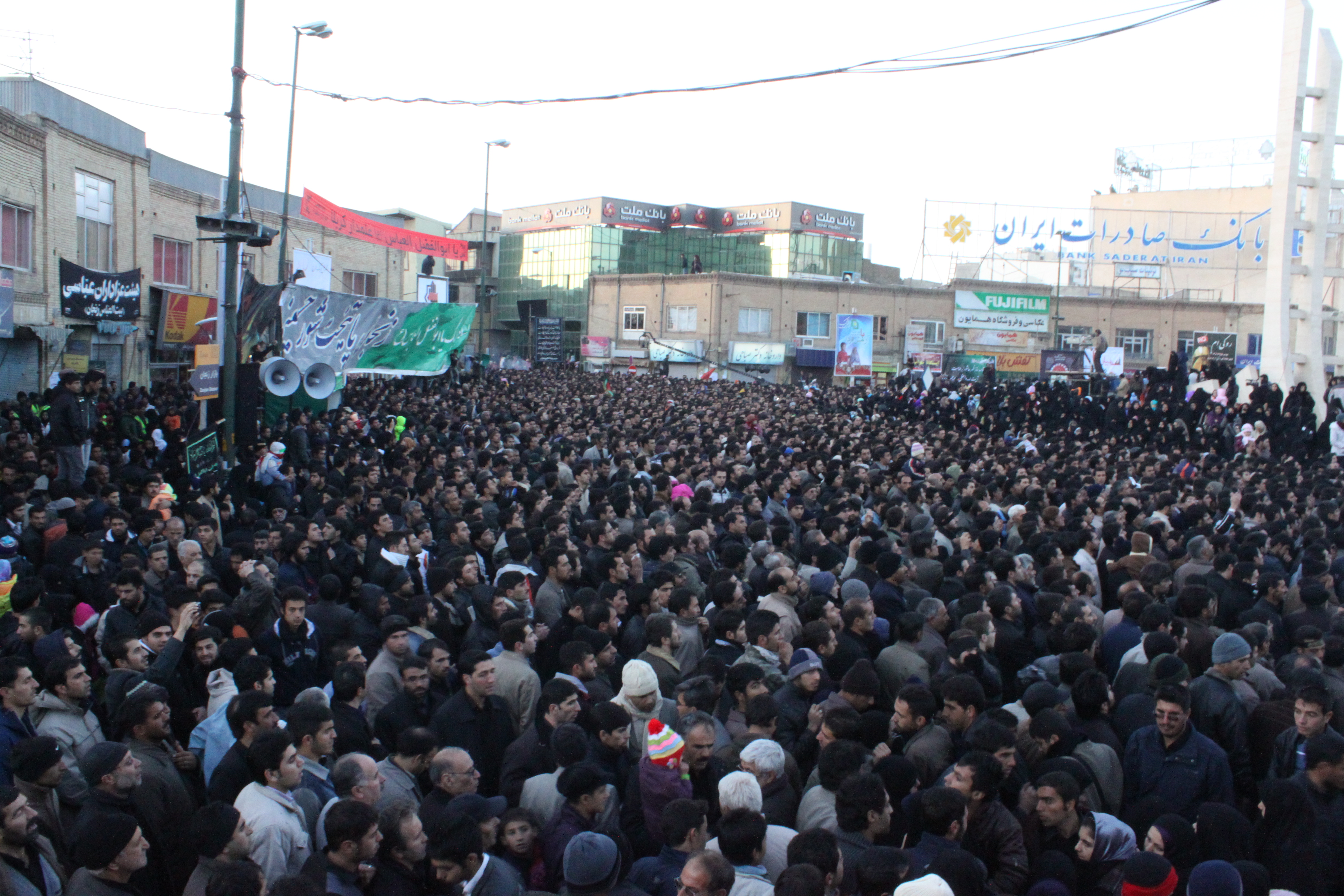 Zanjan azam hussainia in Zanjan,Iran , This image were taken during shia ritual known as "Daste" ,This ritual happens in Muharram, Muharram is a month of mourning when Shiite Muslims recall the seventh-century death of Imam Hussain, grandson of Muhammad. you may see Mourning of Muharram